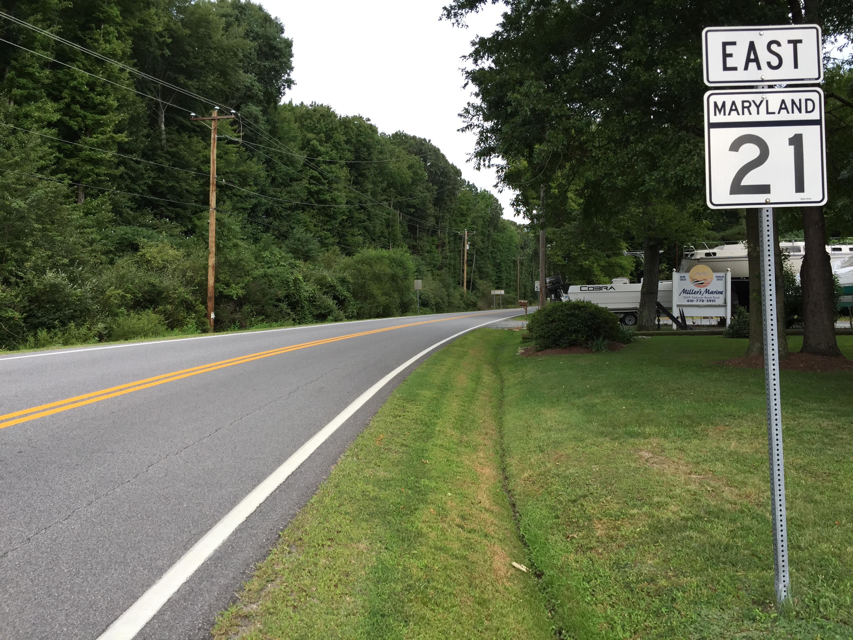 View east along Maryland State Route 21 (Tolchester Beach Road) at Maryland State Route 445 (Tolchester Road) in Tolchester Beach, Kent County, Maryland